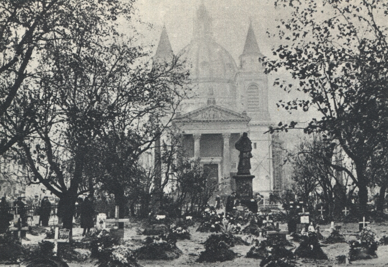 Temporary cemetery at Plac Trzech Krzyży in Warsaw, created during the German siege of Warsaw in September 1939. St. Alexander church in the background.